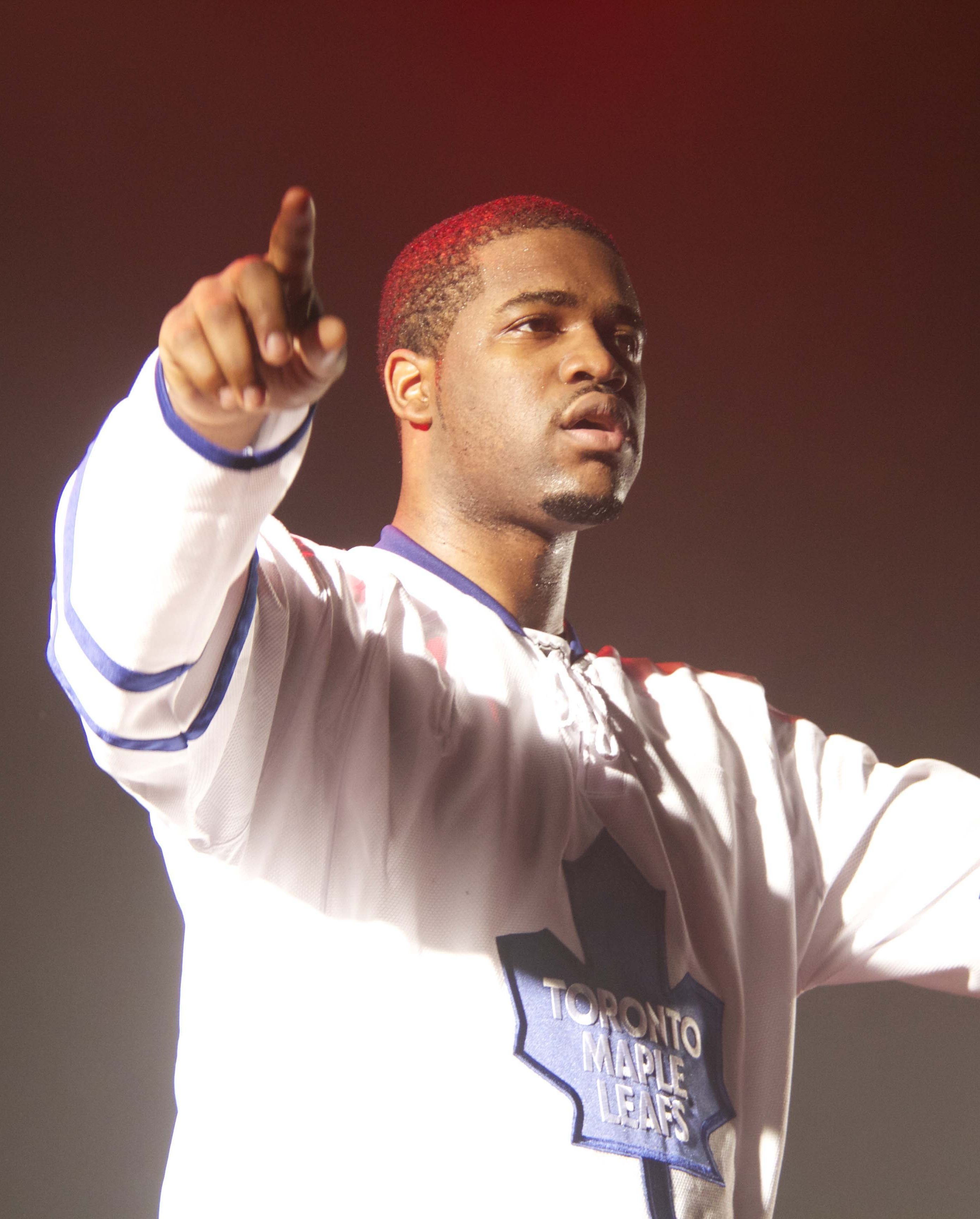 ASAP Ferg Live In Concert